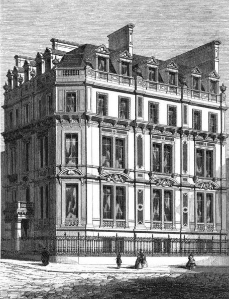 "Mansion of H.T. Hope, Esq., M.P., Picadilly, London. Dusillion and Donaldson, Architects".